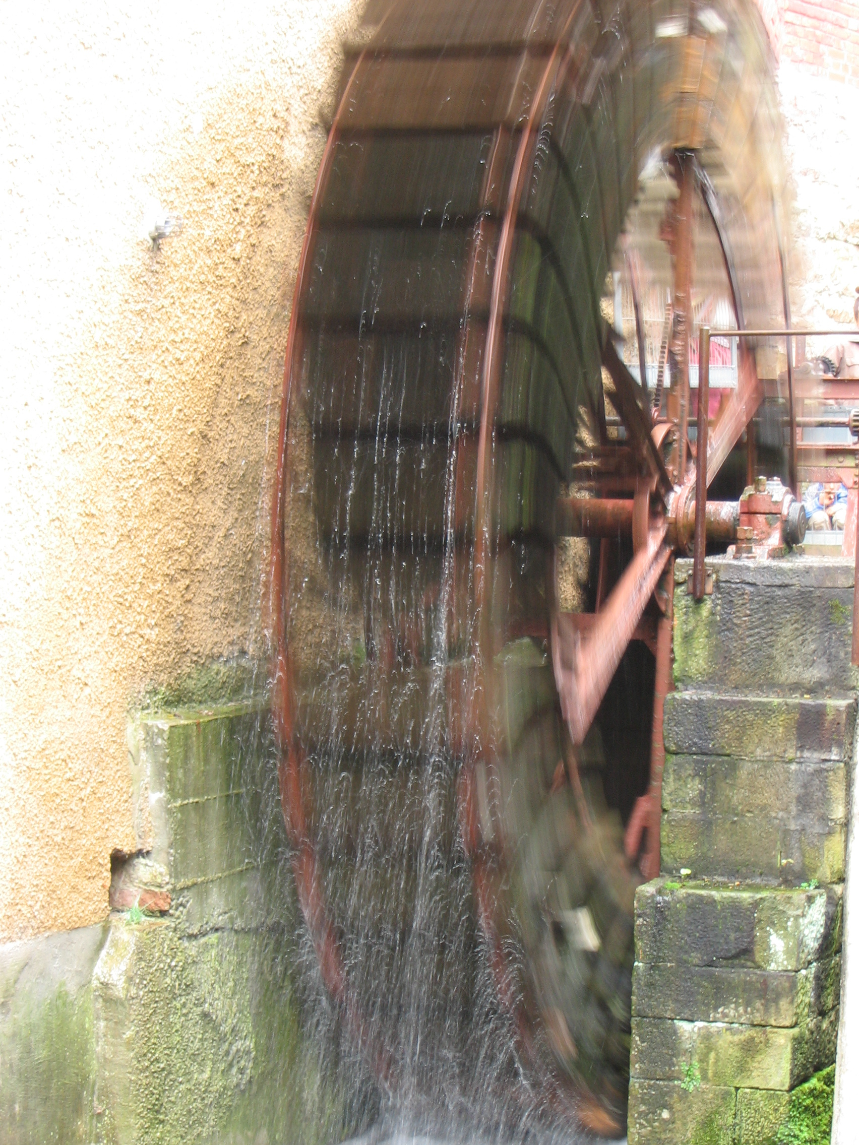 Gerstenmühle, Tübingen, Germany